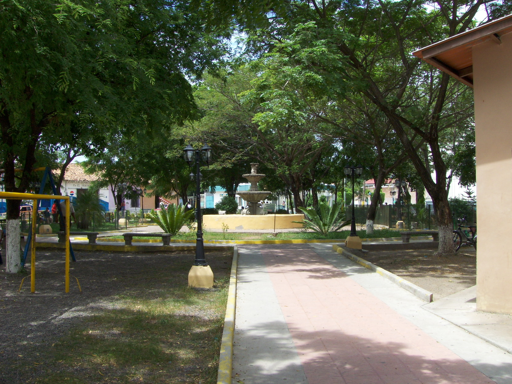 Central square of Nacaome, municipality in the Honduran department of Valle.